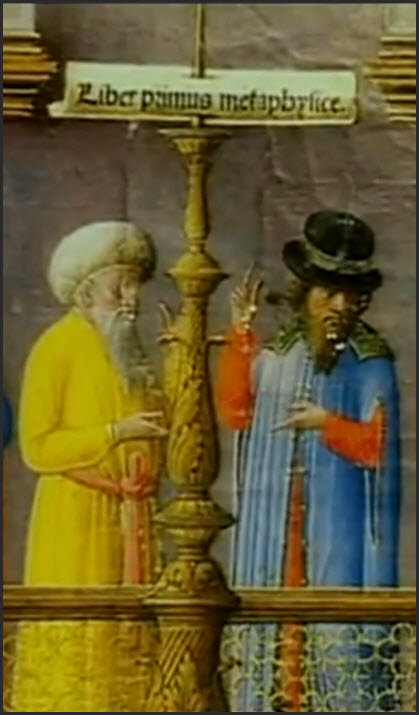 Aristotle and Averroes at a "turba filosofurum", fragment of an illuminated print of Aristotelian philosphy (University of Padova 1483)